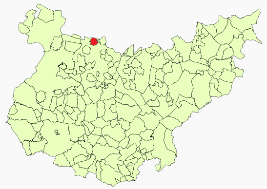 Cordobilla de Lácara